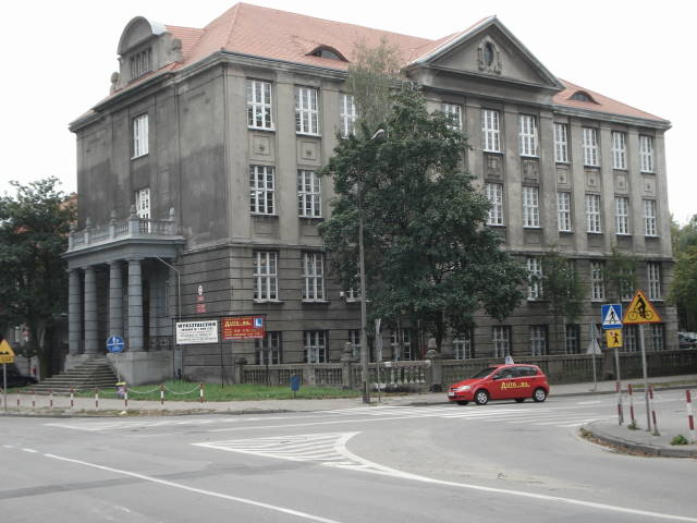 The Professional School in Grudziądz, built 1910